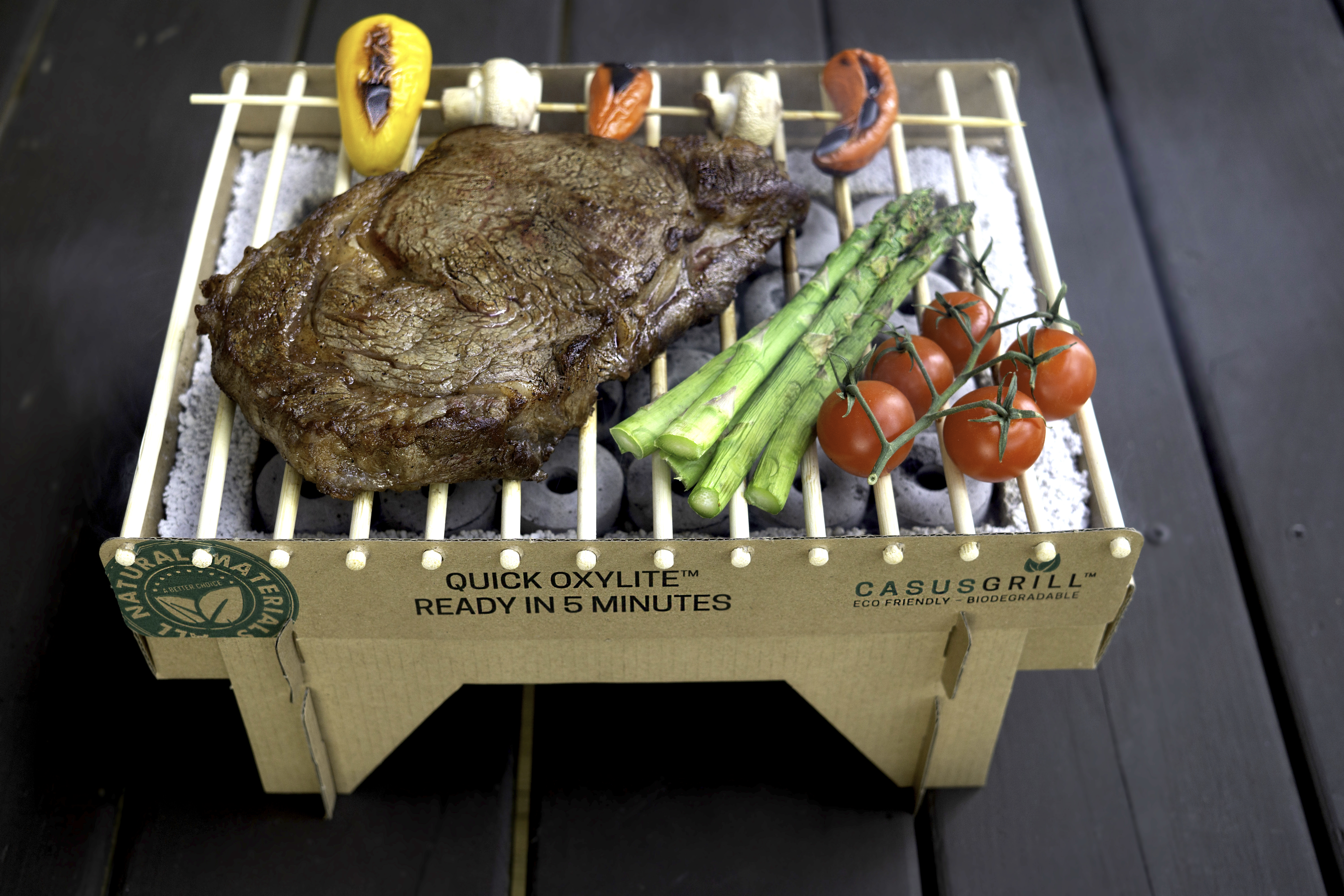 This biodegradable grill constructed using 100% natural ingredients. It produces up to 50% less CO2 emissions and It is ready to grill in only five minutes. It is capable to retains its heat for more than 60 minutes while it creates a high, even temperature that ensures your food is properly grilled, with a delicious, crispy barbequed finish. No metals or chemical to give back to nature once done.